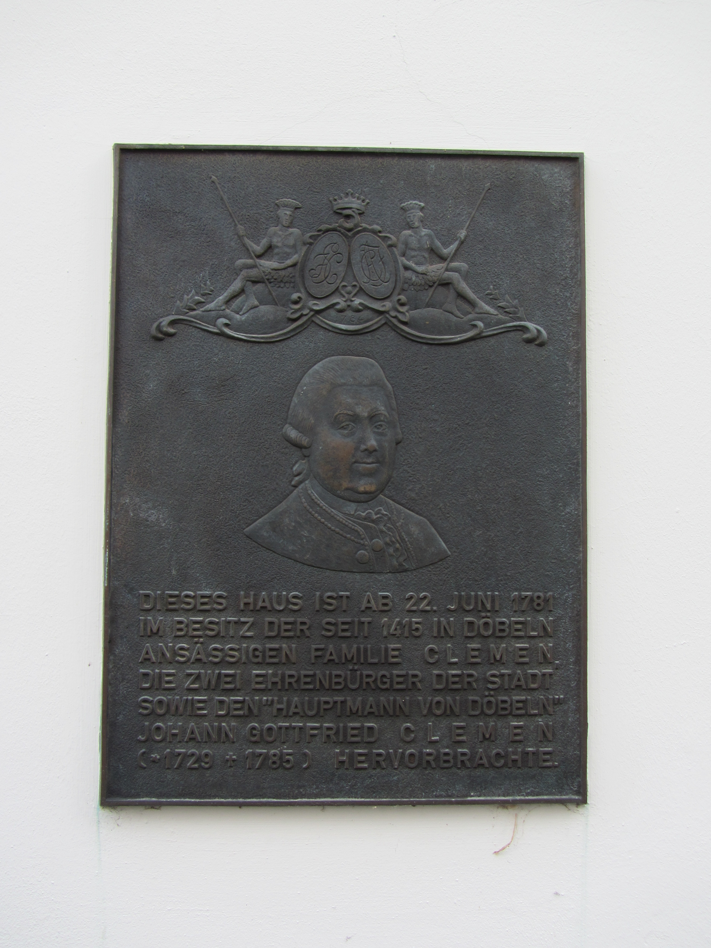 Plaque for Johann Gottfried Clemen in Döbeln, district Mittelsachsen, Saxony, Germany